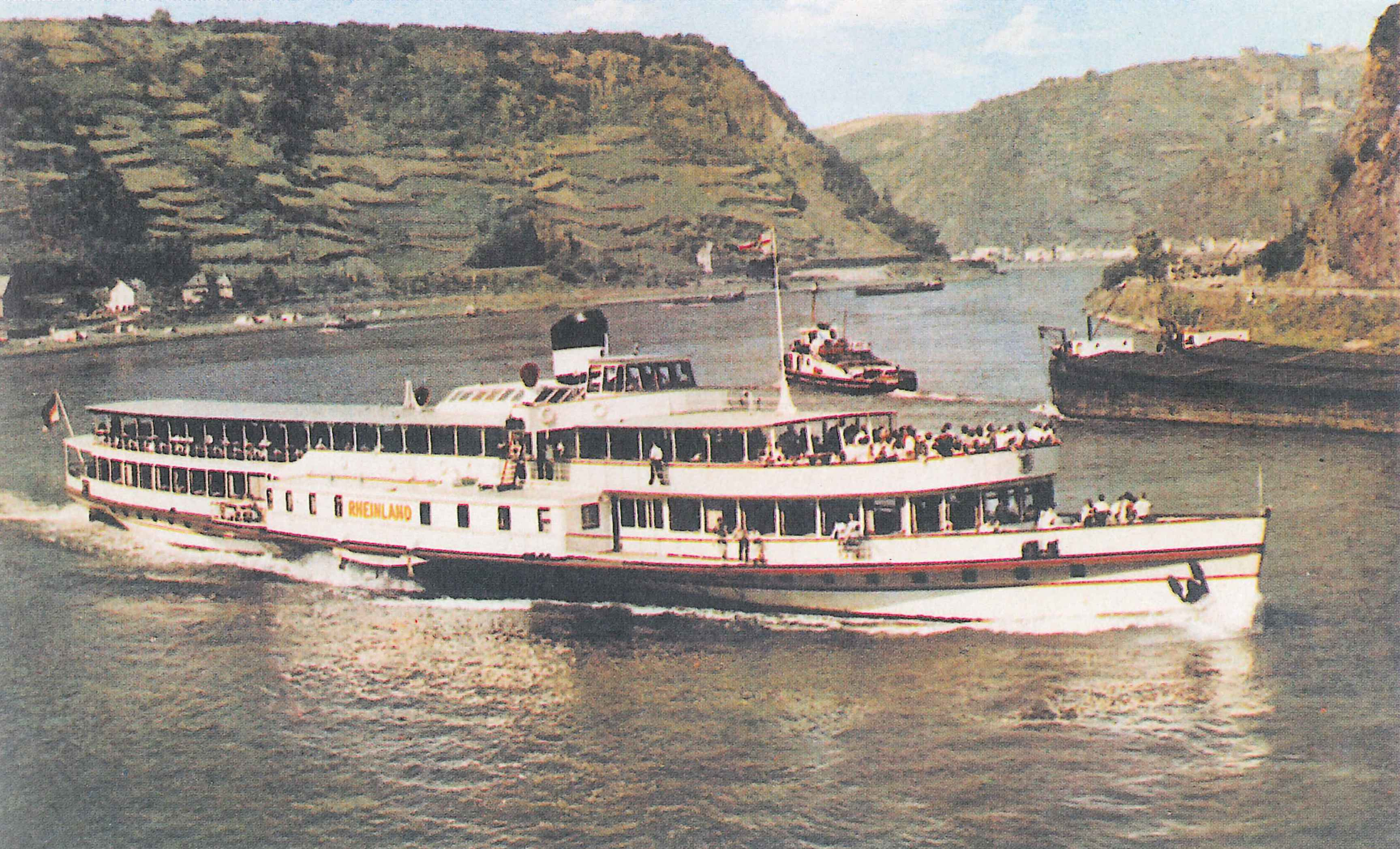 Paddle Steamer Rheinland